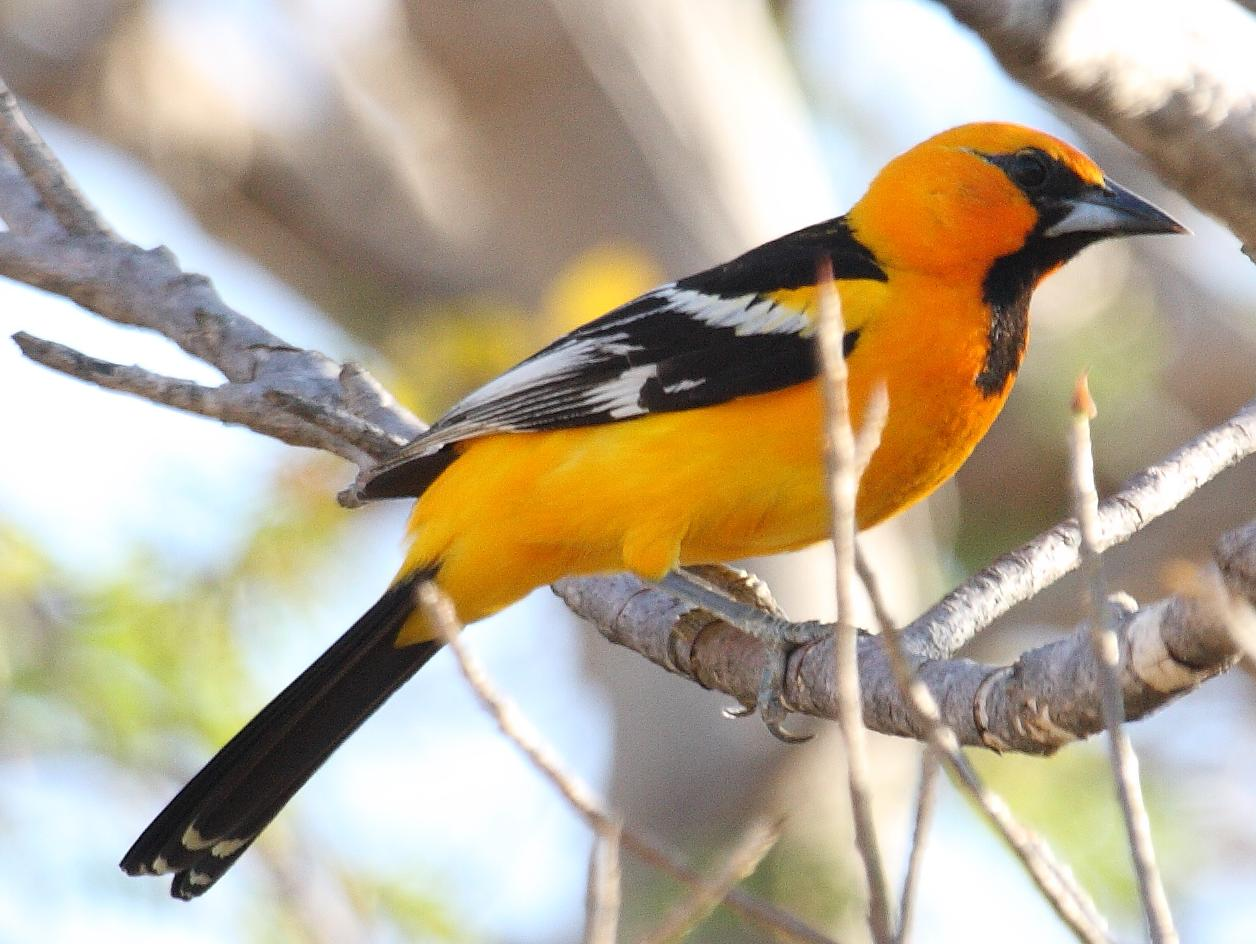 Streak-backed Oriole